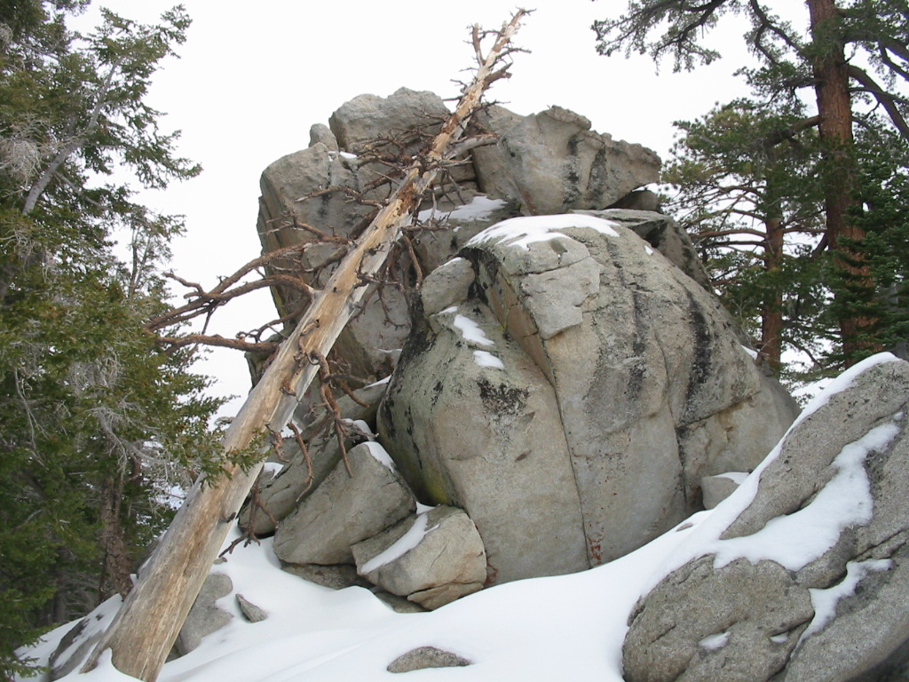 Photograph of trees and rocks on the Round Valley trail at Mount San Jacinto State Park in California.